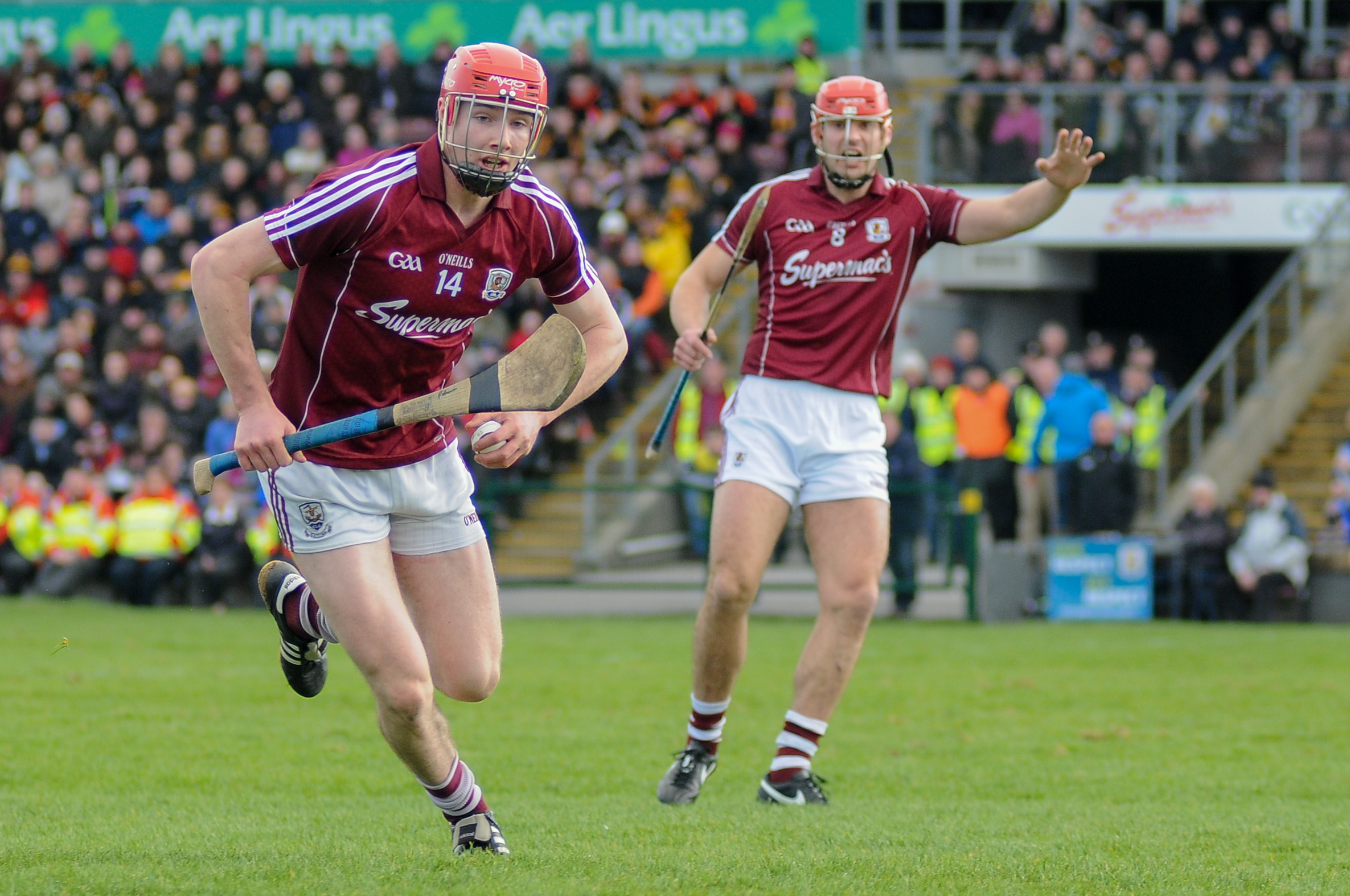 Cathal Mannion in action for Galway against Kilkenny in the 2015 National Hurling League at Pearse Stadium